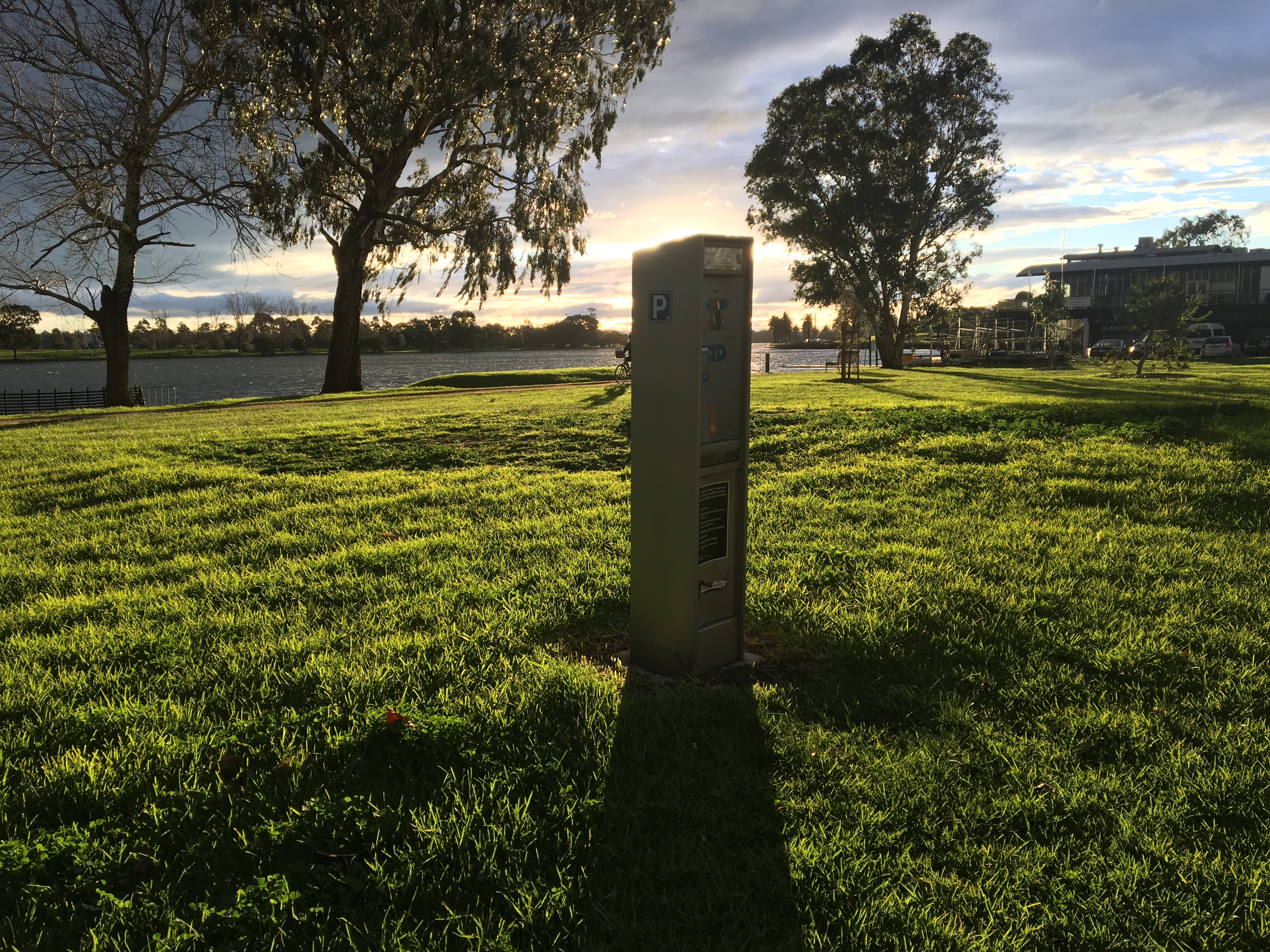 This particular parking meter is found in a park of Melbourne.